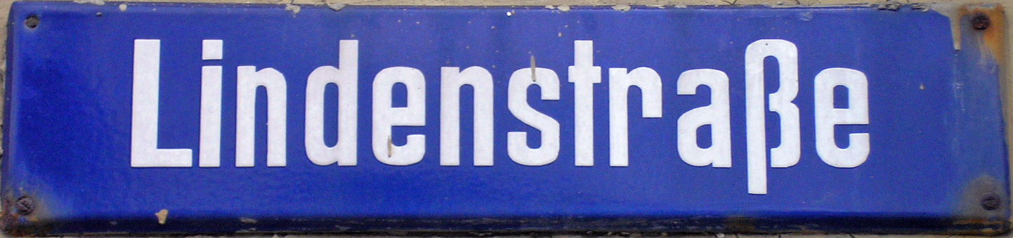 An old enamel street sign in Ilmenau (Thüringen).